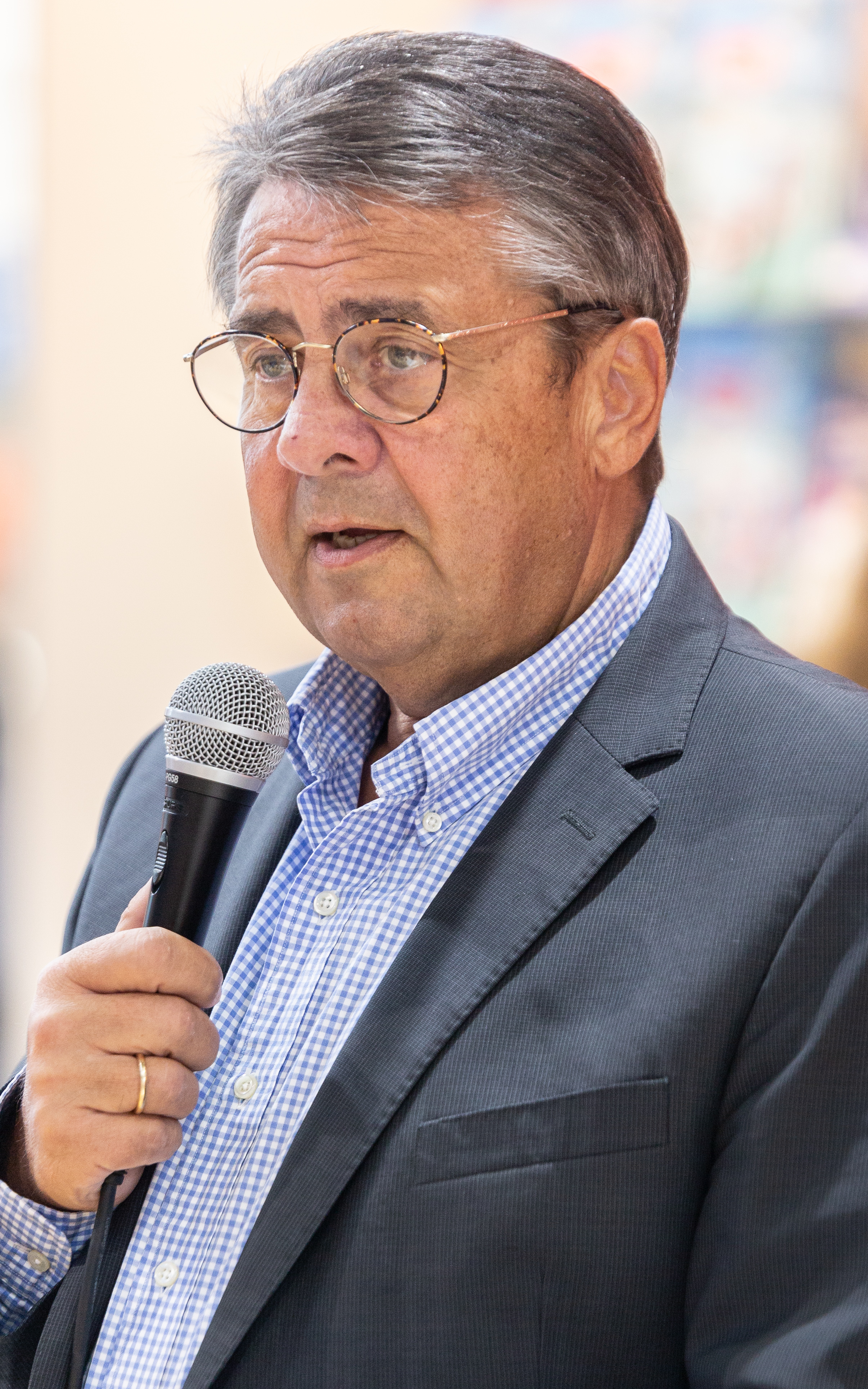 Sigmar Gabriel at the Frankfurt Book Fair 2018